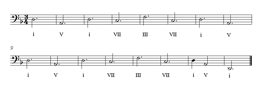 The later folia progression chord in d minor key.